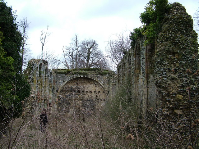 The crumbling remains of this Cistercian Abbey lie on the edge of a wood, completely abandoned. However it must have been tended in the fairly recent past or it would be full of mature trees. This view reveals a mysterious architectural feature - an arch with no obvious purpose. There is no sign this is a 'bricked up' window, and the other side of the wall shows no evidence of this feature. An obvious row of holes right across the arch show where a floor would have been supported.